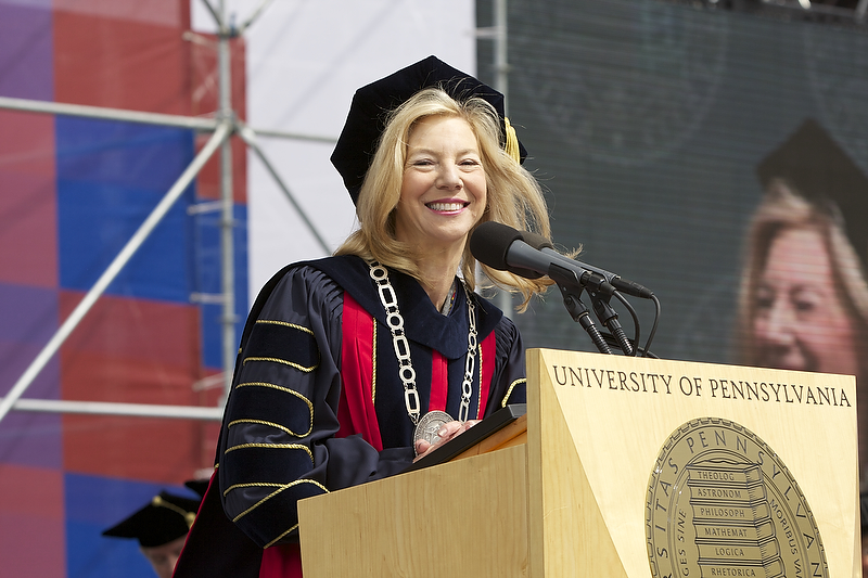 Amy Gutmann speaks to graduates of the University of Pennsylvania in 2009